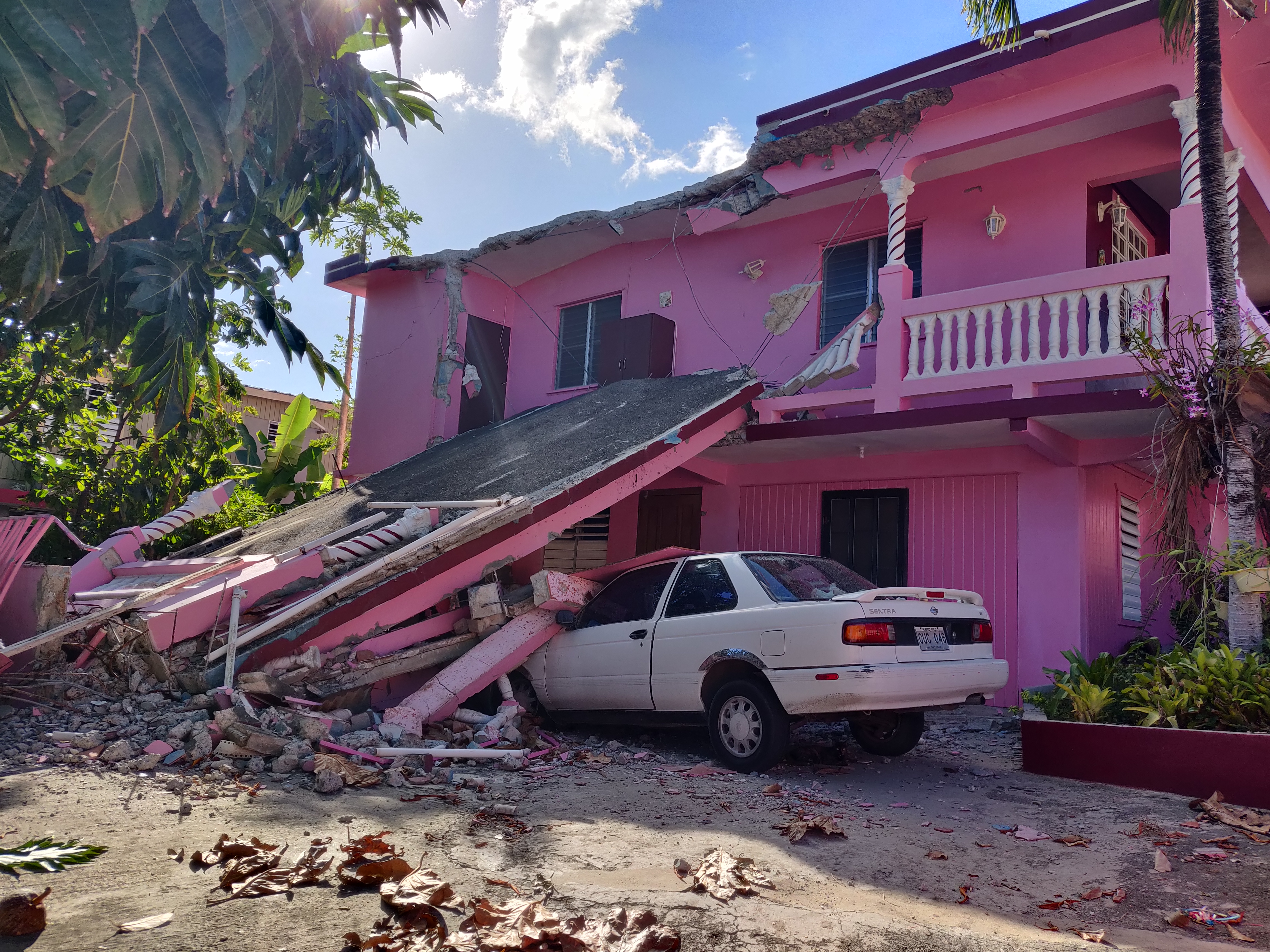 View of a collapsed house in barrio Barinas, Yauco, Puerto Rico, one week after January 7th, 2020 earthquake.